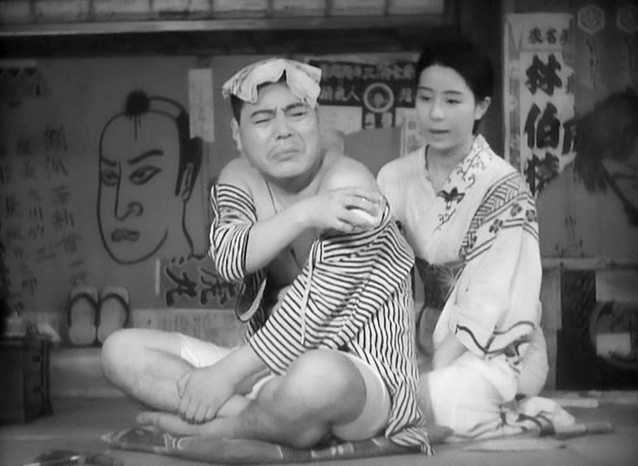 Takeshi Sakamoto and Yoshiko Tsubouchi in A Story of Floating Weeds (浮草物語) directed by Yasujirō Ozu - 1934